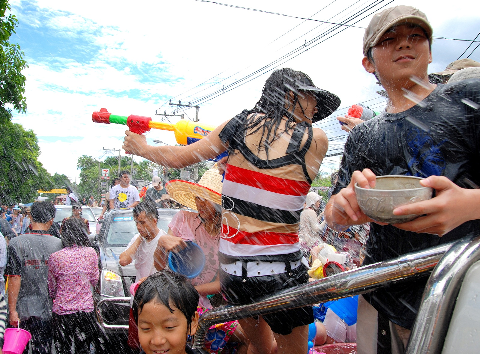 The roads along the old moat of Chiang Mai are full of vehicles during the Songkran water splashing festival.